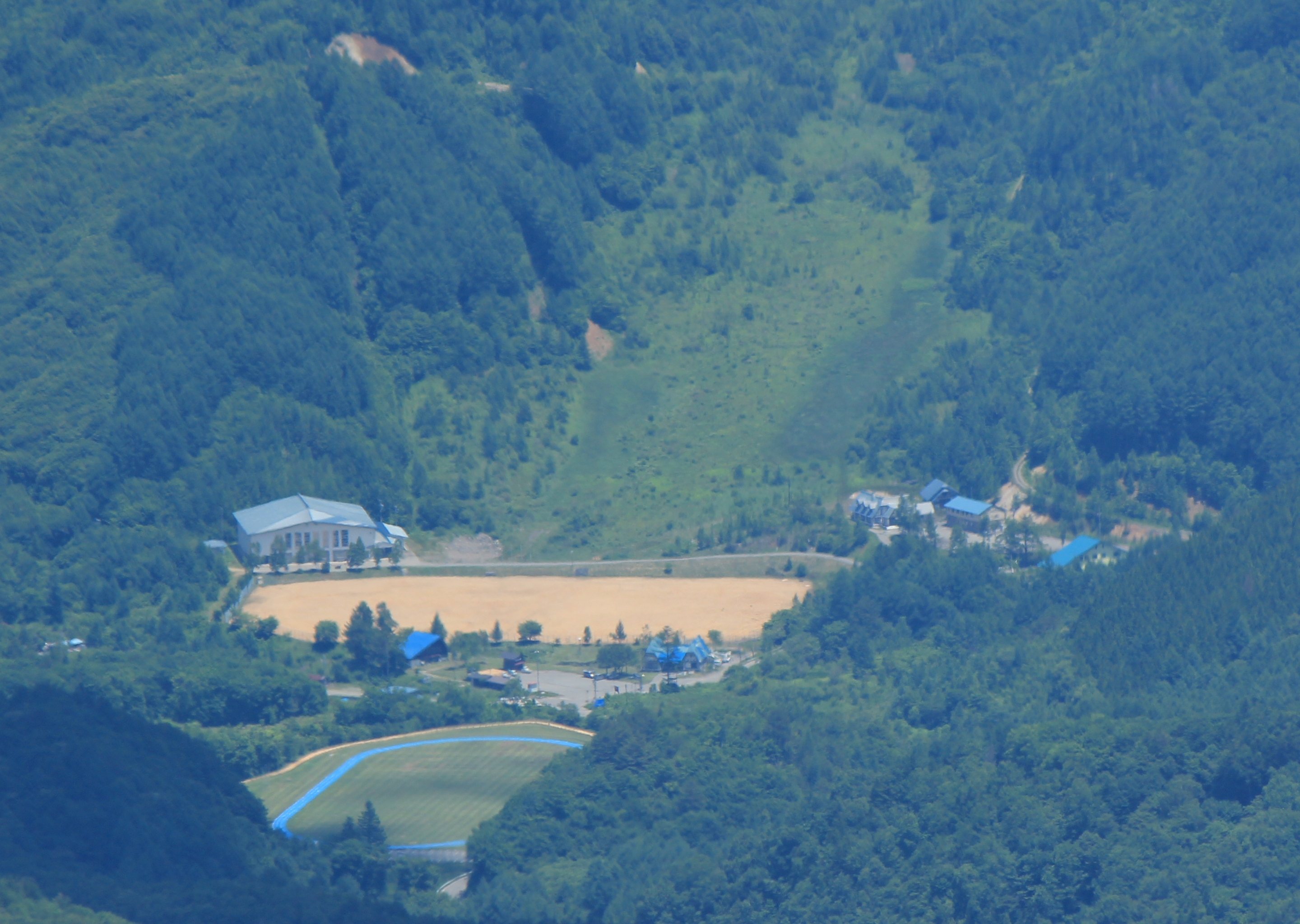 Hiwada highland zoon of Hida Ontake highland High-altitude training area, seen from Mount Mamako of Mount Ontake in Gifu, prefcture, Japan.